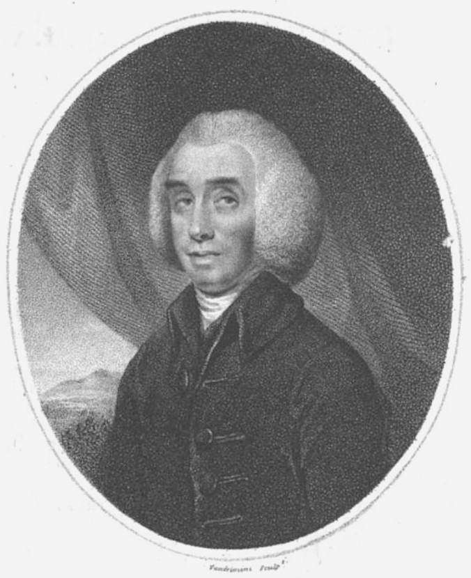 Portrait of Theophilus Lindsey (1723-1808)